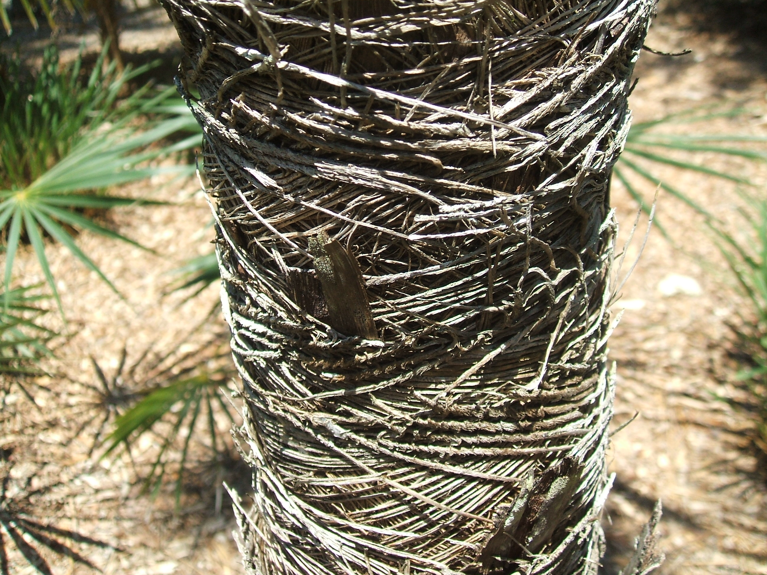 Coccothrinax scoparia at Fairchild Tropical Botanic Garden, Coral Gables, Florida, USA; detail of stem showing fibrous leaf sheaths.